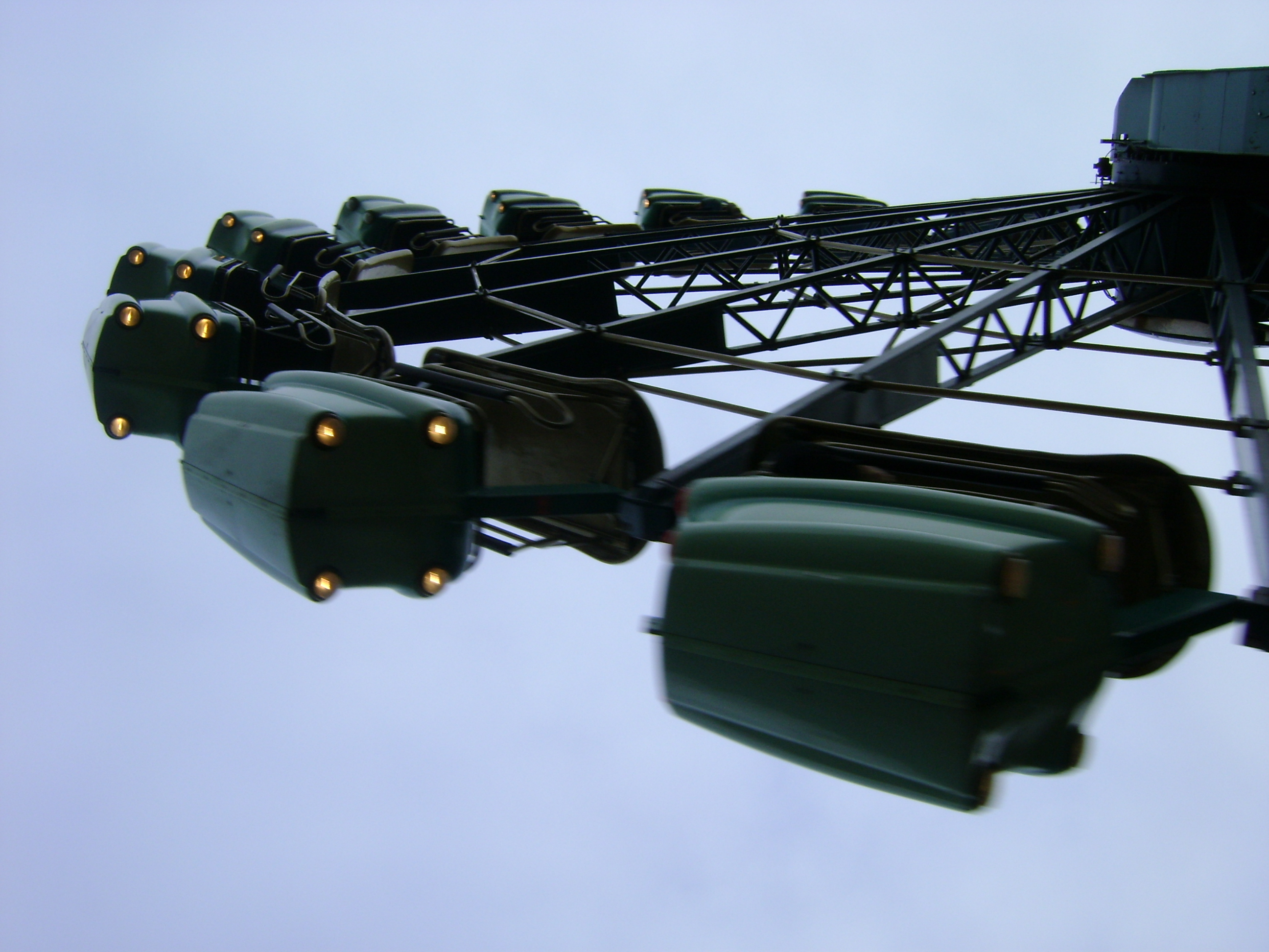 Enterprise Slagharen